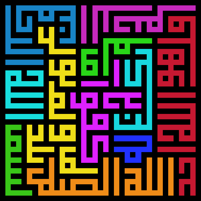 Reproduction of a medieval mosaic in Isfahan (Iran). Example of arabic calligraphy